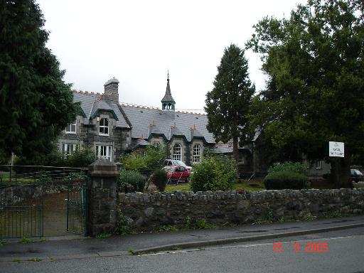 Ysgol Tal y Bont. The village school in Tal y Bont